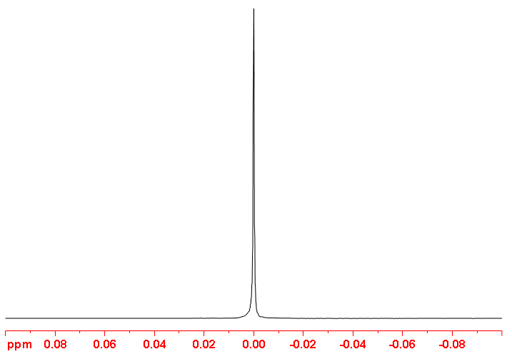 Author: Dr. Roy Hoffman, Hebrew University (used by permission)